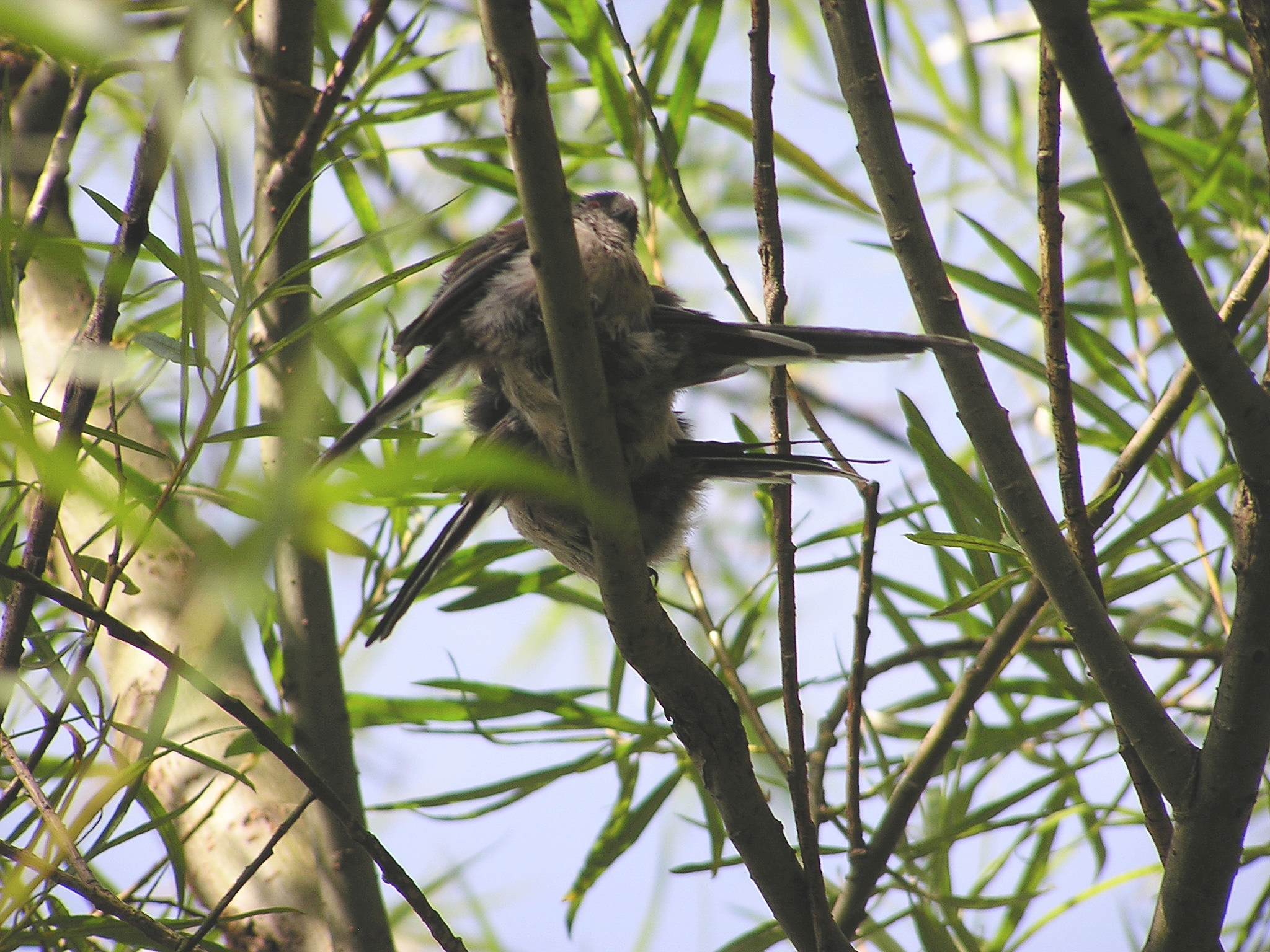 Long-tailed Tits resting, mid-afternoon in energy saving antiparallel paired formation in a Willow in my Dronfield, Derbyshire UK back garden